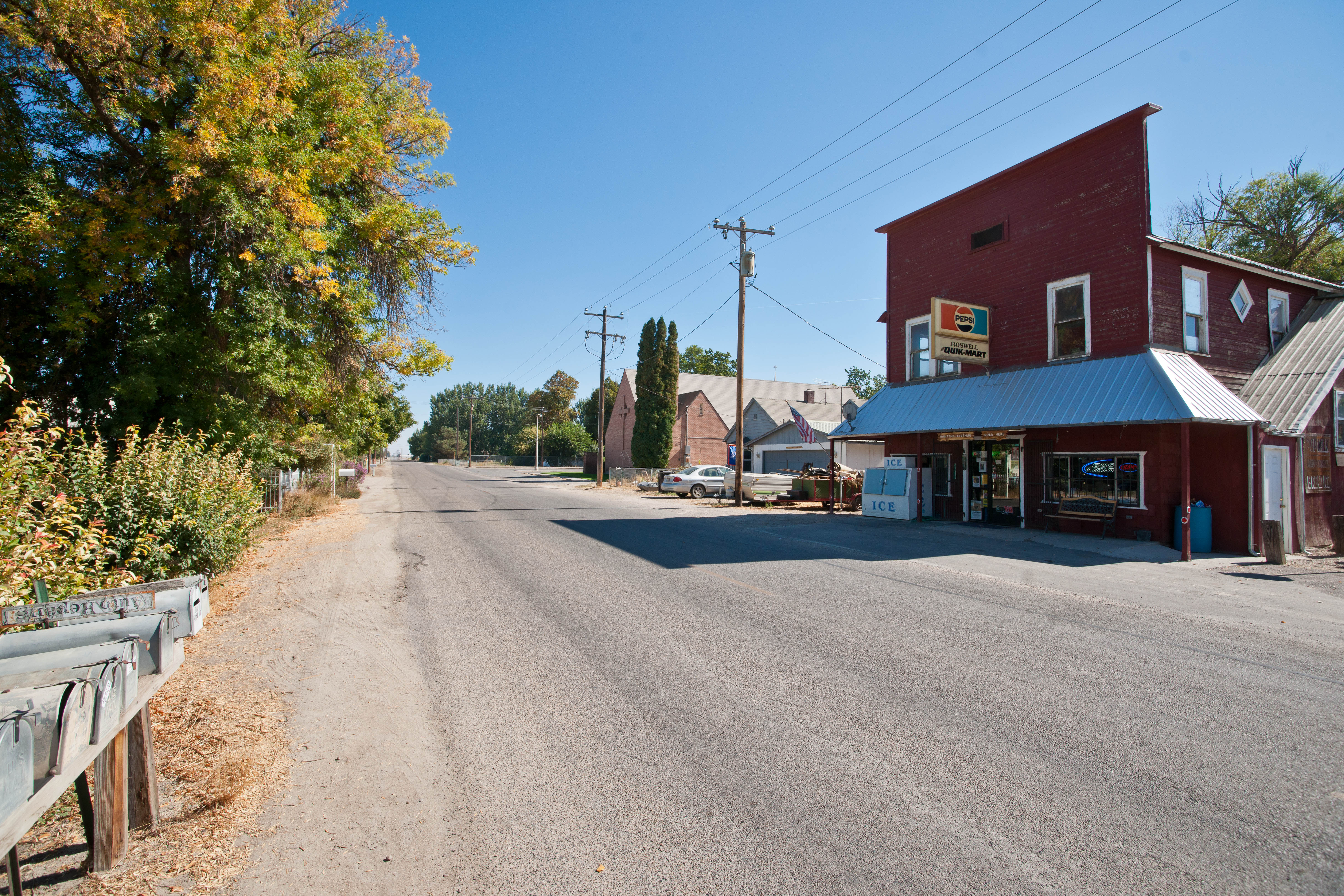 Businesses in Roswell, Idaho